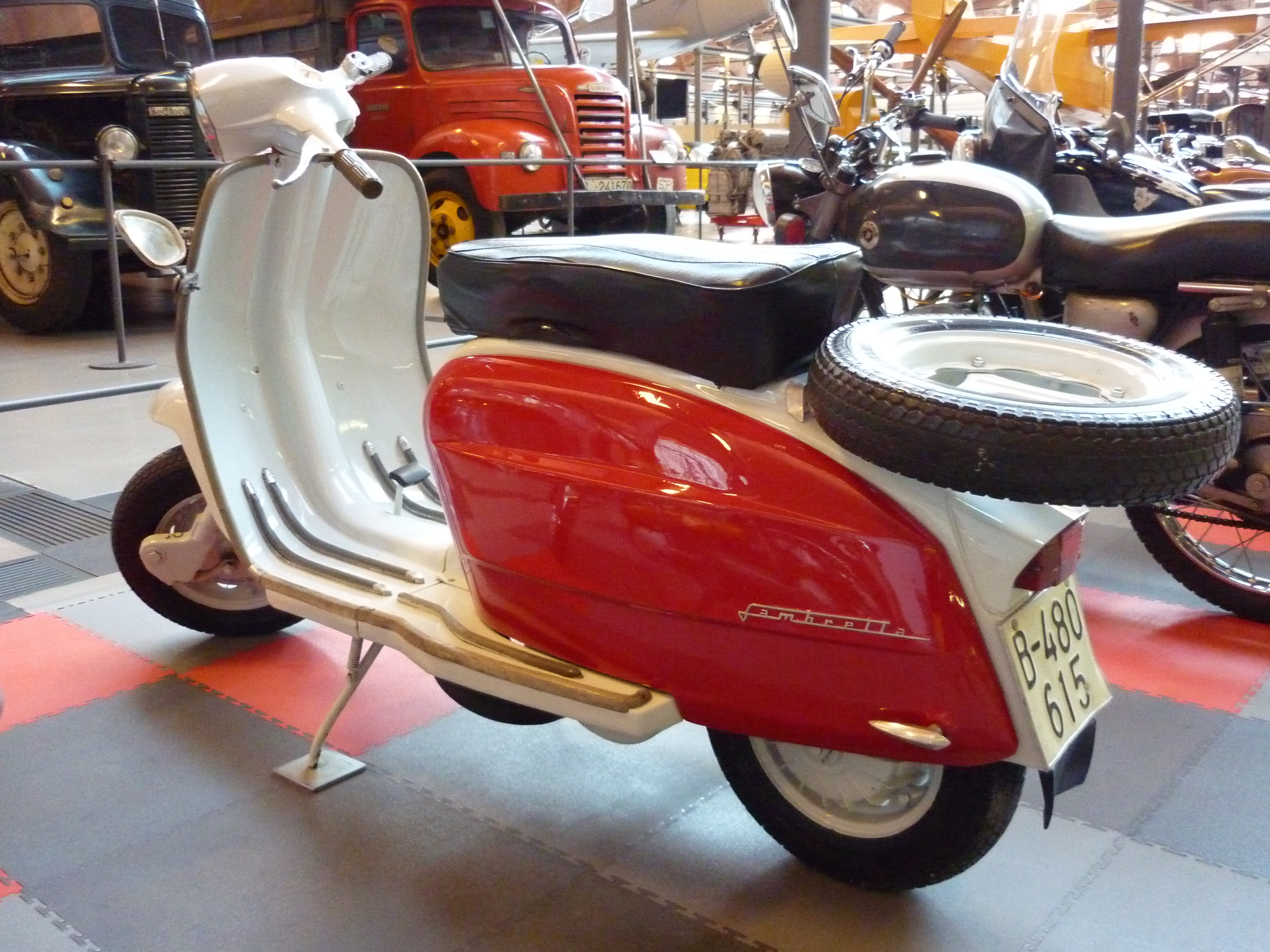 Lambretta scooter from around 1960